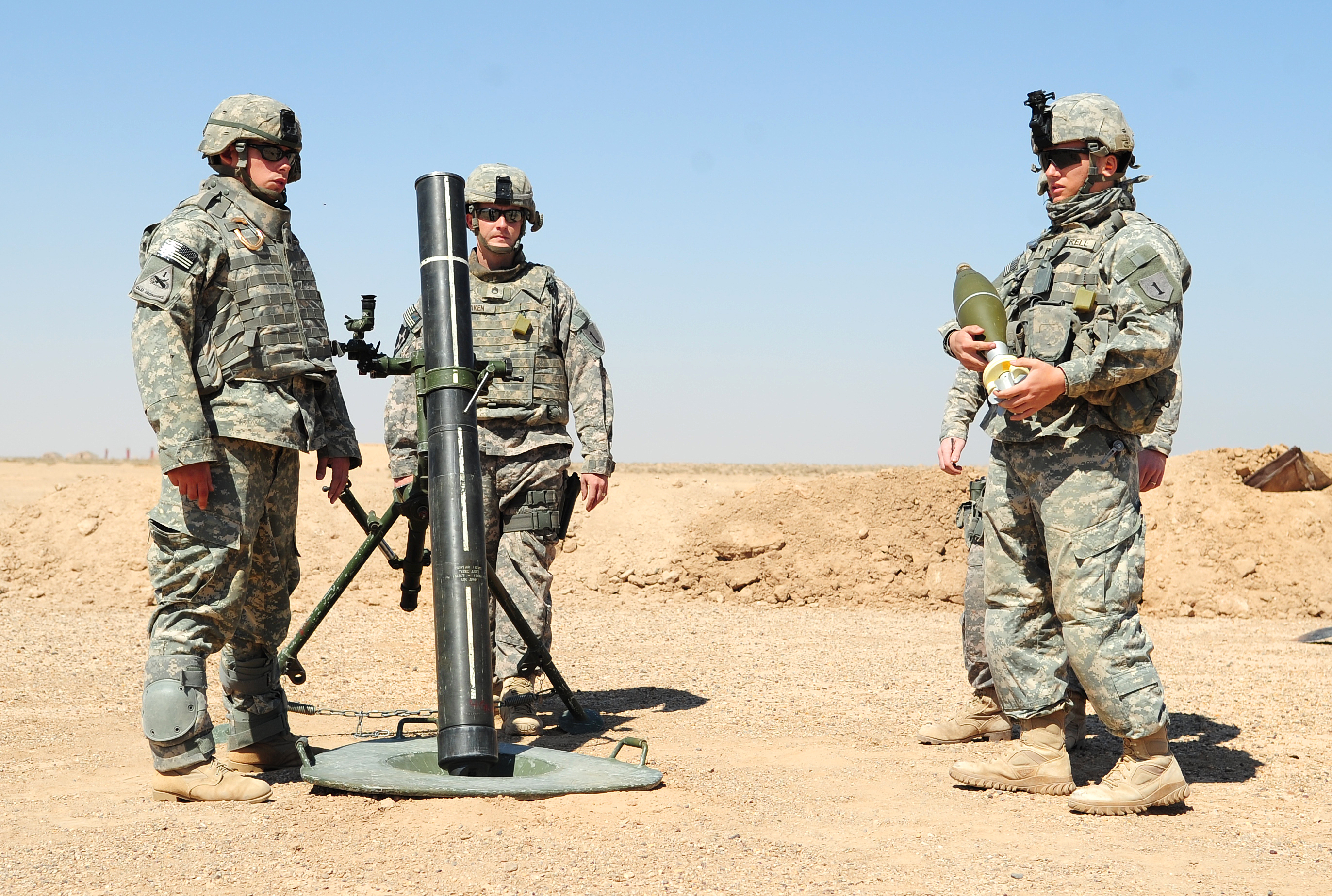 U.S. Army soldiers prepare to fire a 120mm mortar round to teach Iraqi soldiers how to use the system in Mahmadiyah, Iraq, March 26, 2009.